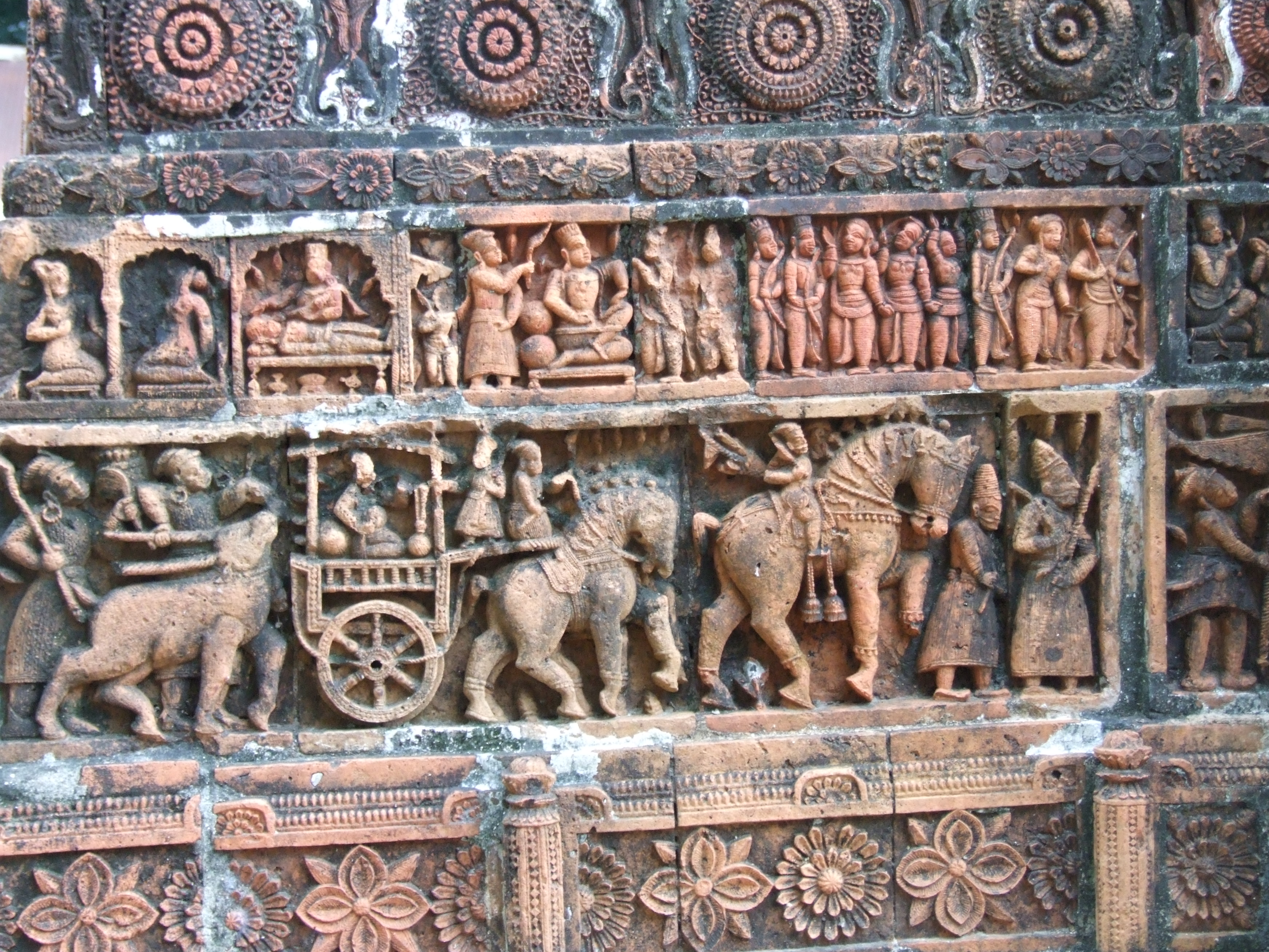 Kantanji's Temple in Dinajpur, Bangladesh. Photograph taken by: Saiful Aziz Shamsir.